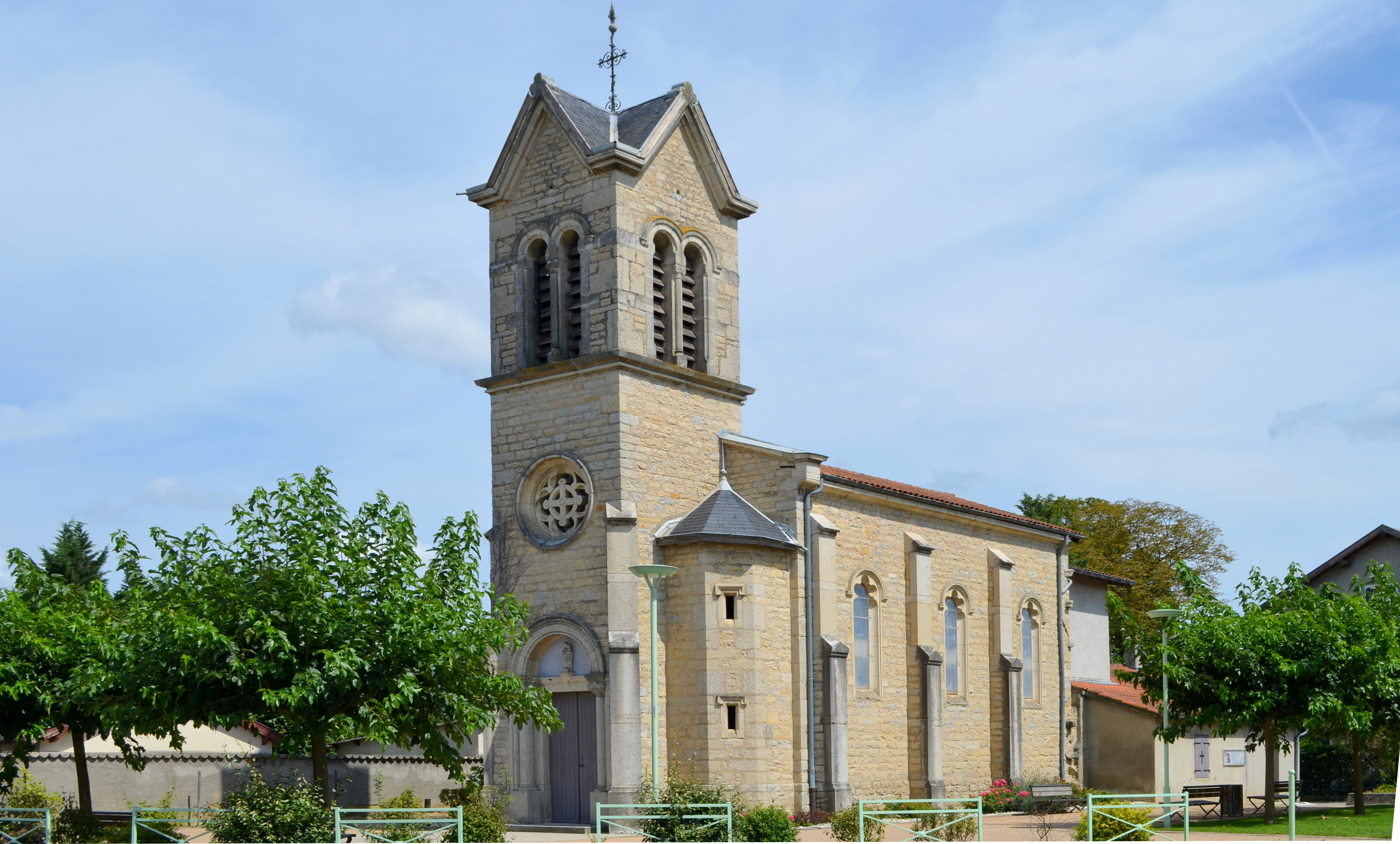 Exterior of église Saint-Florent de Thil (Ain).